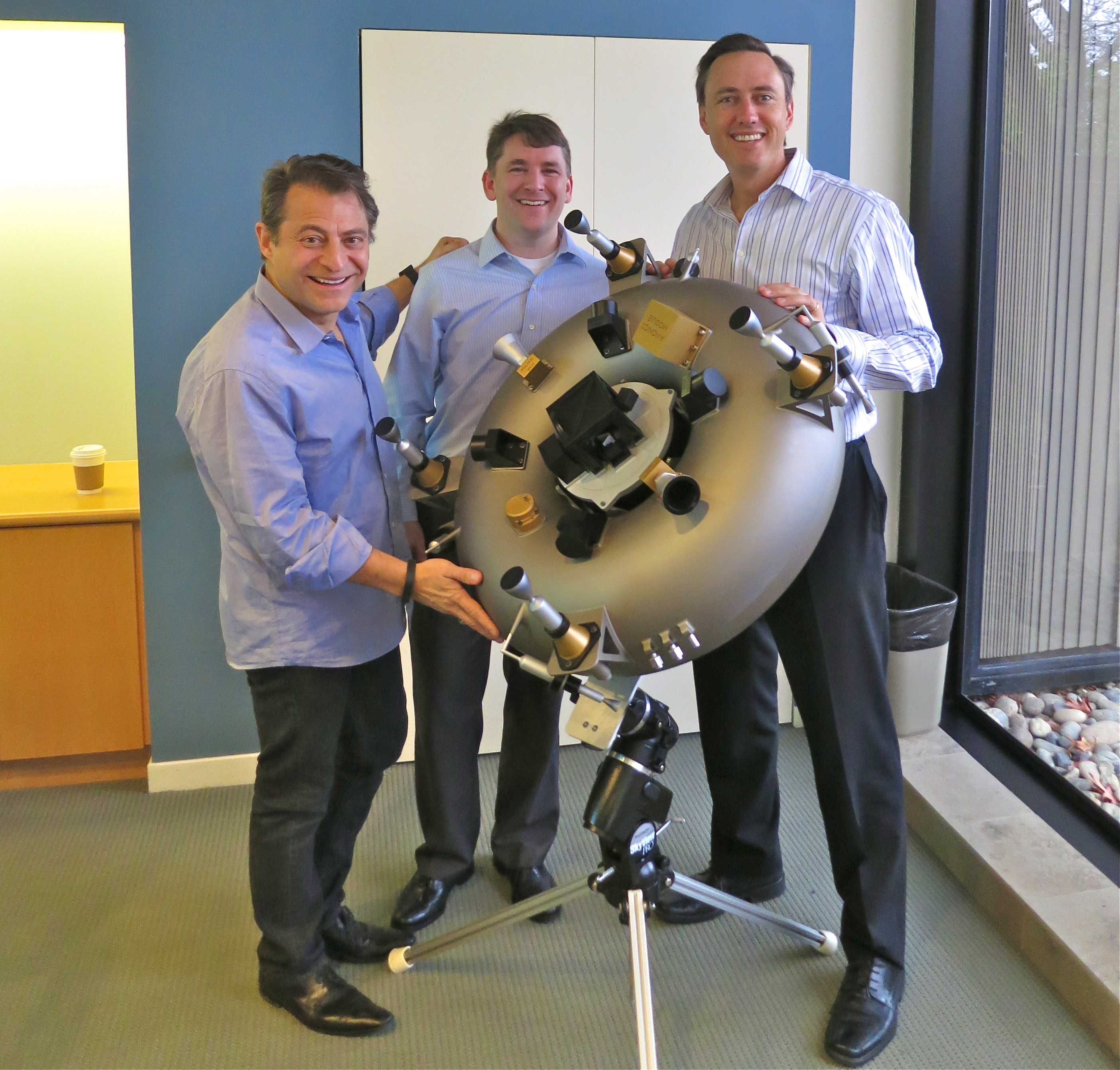 7 February 2014 unveiling of the 3D-Printed Satellite from Planetary Resources. The torus holds the fuel and provides the structure for the satellite. From left: Peter Diamandis, Chris Lewicki, and Steve Jurvetson. "All of my photos are free to use forever with a simple photo credit: photo by Jurvetson (flickr)"